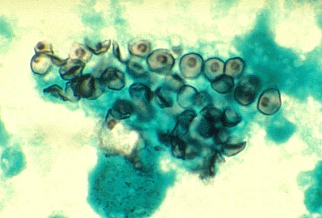 ID#: 554 Description: Cysts of Pneumocystis carinii in smear from bronchoalveolar lavage. Methenamine silver stain. Content Providers(s): Dr. Russell K. Copyright Restrictions: None - This image is in the public domain and thus free of any copyright restrictions. As a matter of courtesy we request that the content provider be credited and notified in any public or private usage of this image.